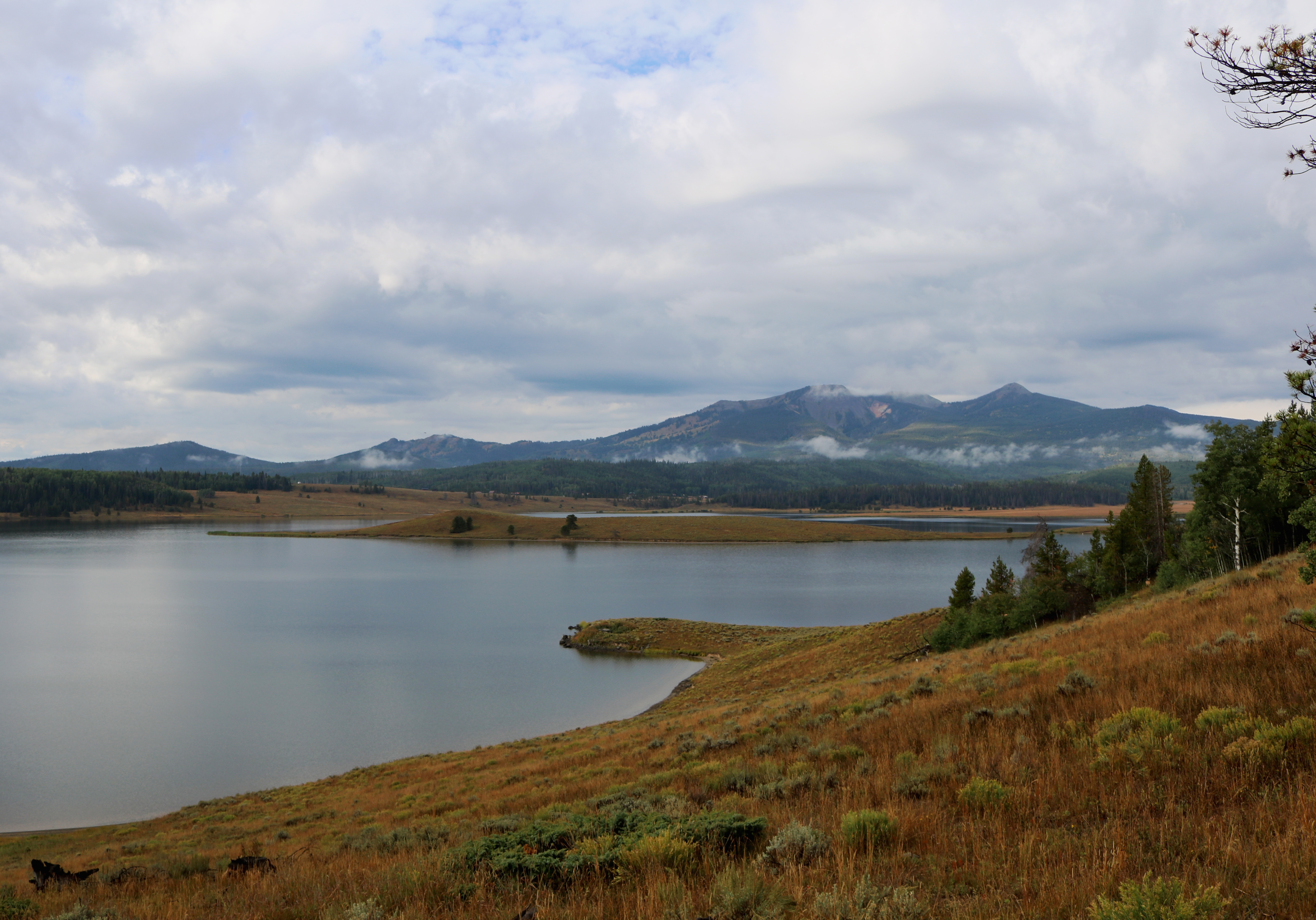 Steamboat Lake State Park in Routt County, Colorado.